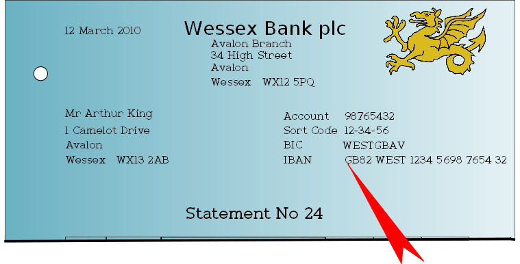 A typical (fictitious) British bank statement showing the location of the IBAN. The statement header itself is based on the headers used by Lloyds Bank and the Halifax - two well-known British banks. The first four characters of the IBAN contain the same information for all countries: characters 1 and 2 of the IBAN identify the country where the bank is based (in this case "GB" = "Great Britain") and characters 3 and 4 contain the IBAN checksum. The information contained in subsequent characters varies from country to country. In the case of British IBANs characters 5 to 8 are the bank's BIC code, characters 9 to 14 of the IBAN contain the sort code and characters 15 to 22 contain the account number.